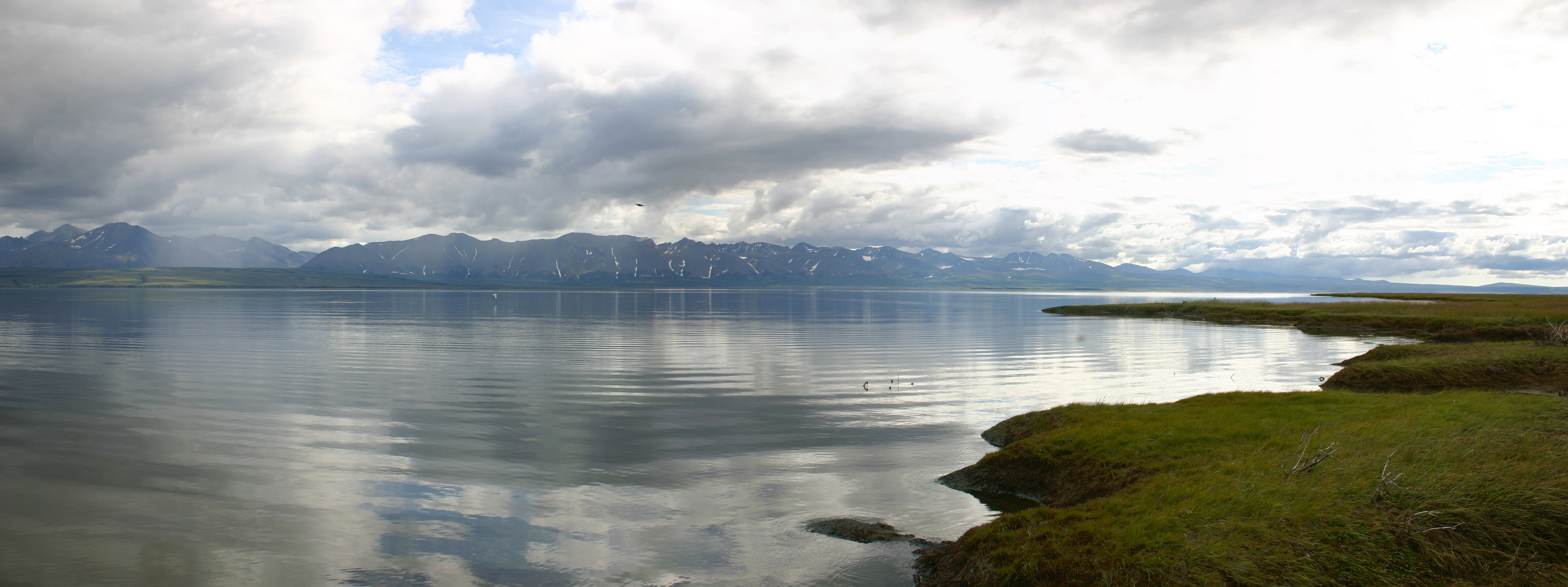 This is a view of western Alaska's Imuruk Basin with the Kigluiak Mountains visible in the background.